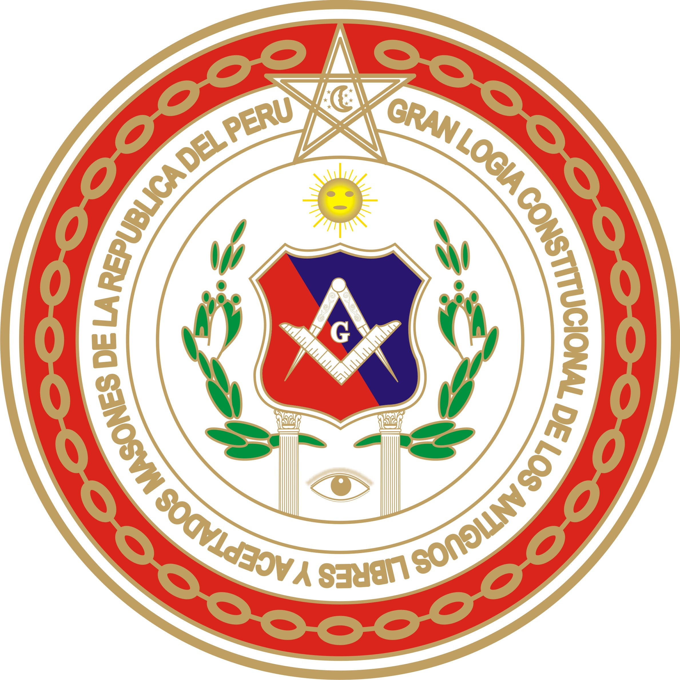 Constitutional Grand Lodge of Peru